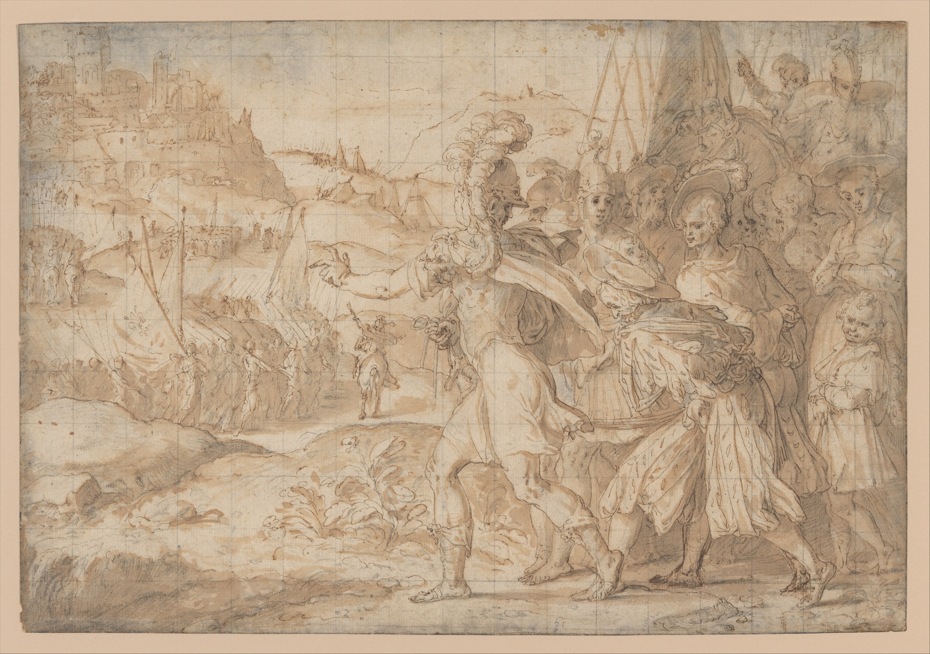 The siege of Faesulae (Fiesole) by the Goths in the 6th century.